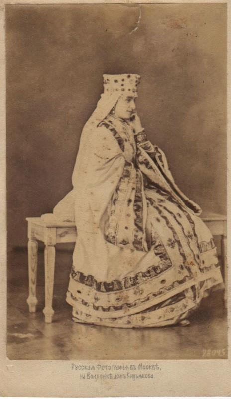 Nadezhda Nikulina in the role of Queen Anne in 1868. Performance "Voevoda", Maly Theatre (Moscow). Front side.